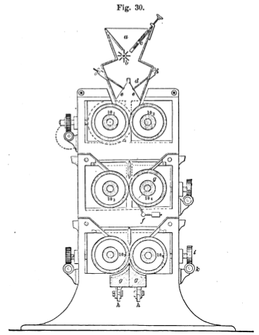 A depiction of three pairs of steel roller mills as used in Hungary's Pesth Walzenmühle, circa 1870s. Vienna International Exposition, 1873.